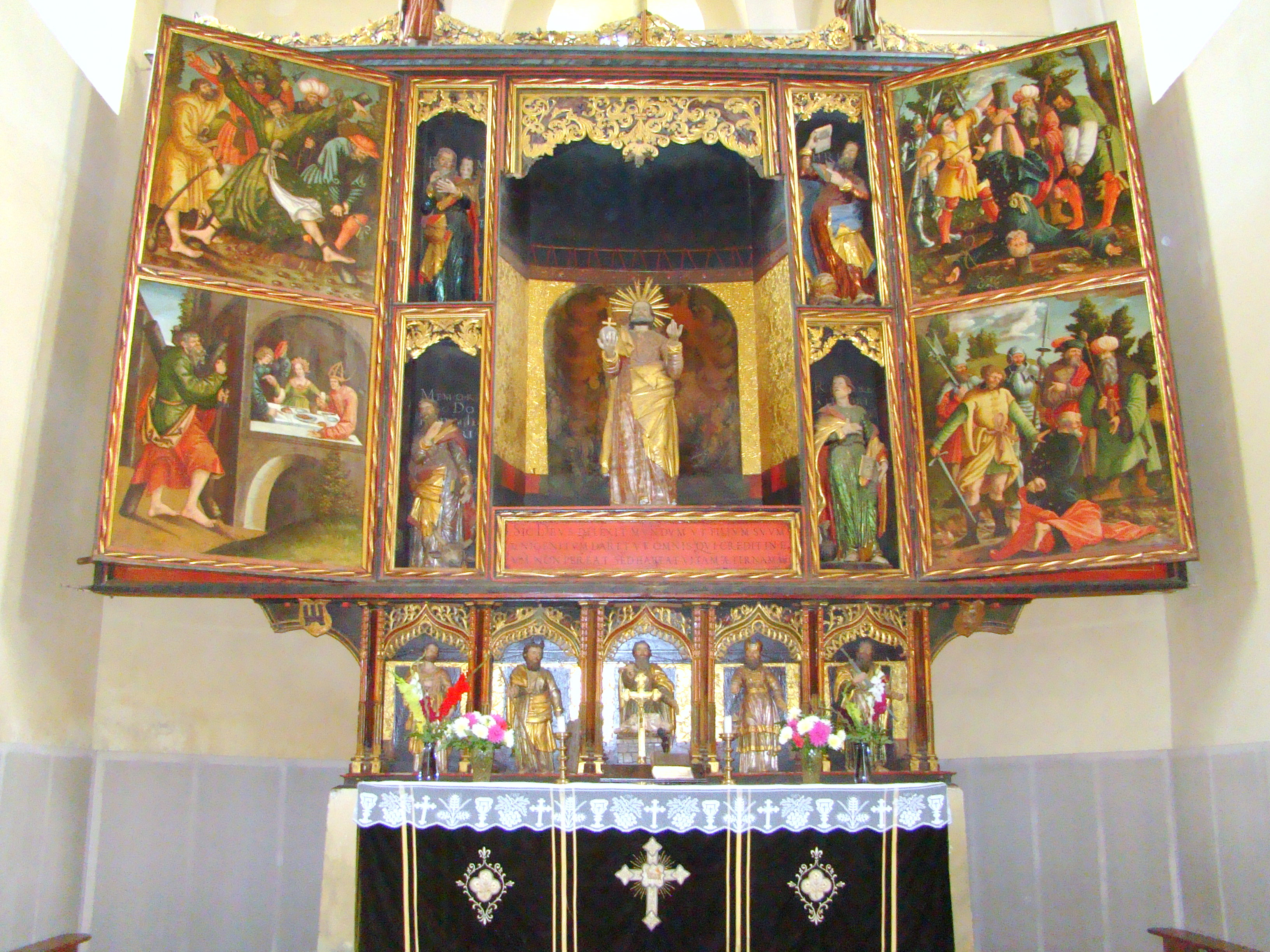 Lutheran church in Hălchiu, Brașov County, Romania